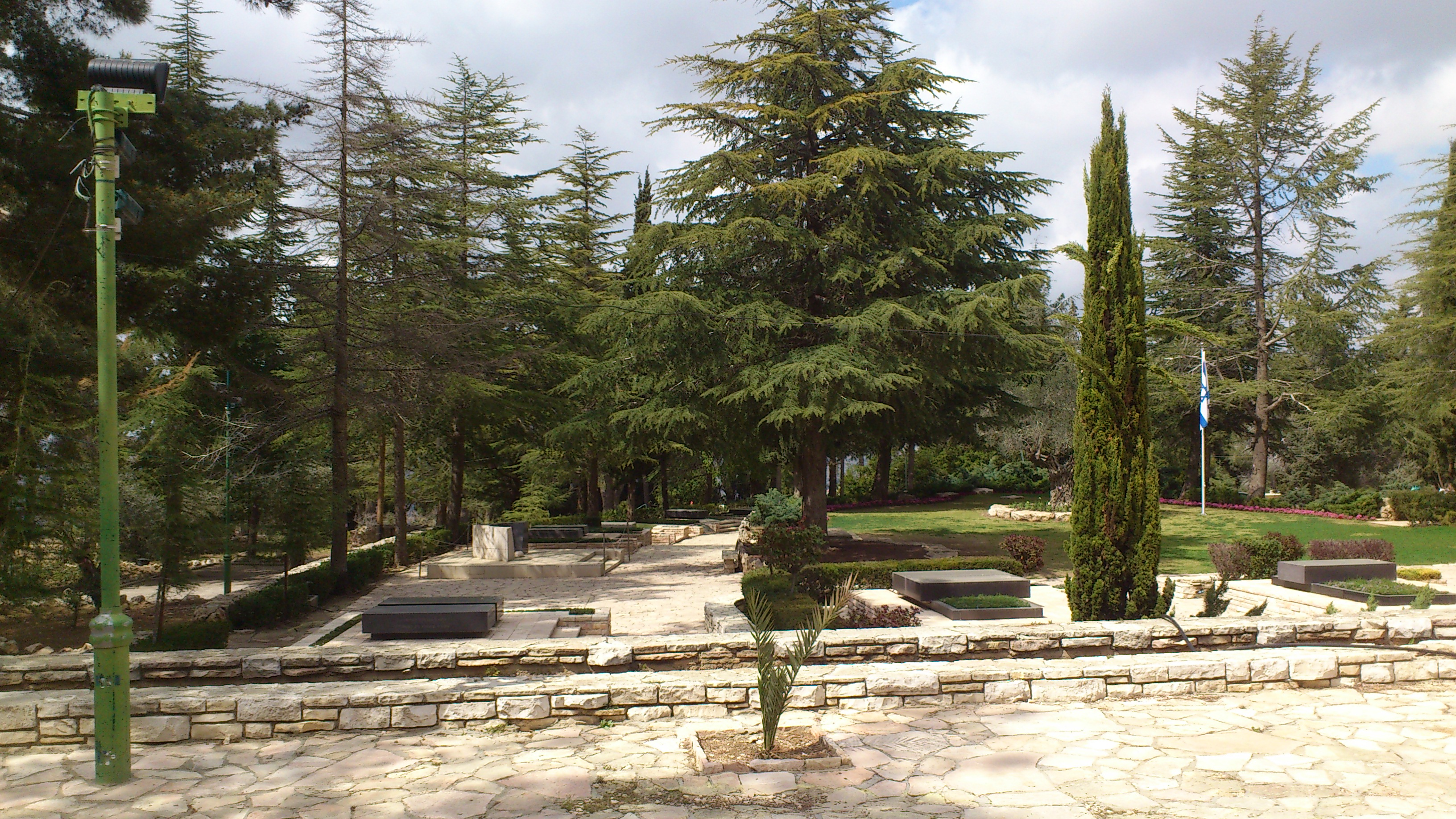 Nation's Great Leaders Graves